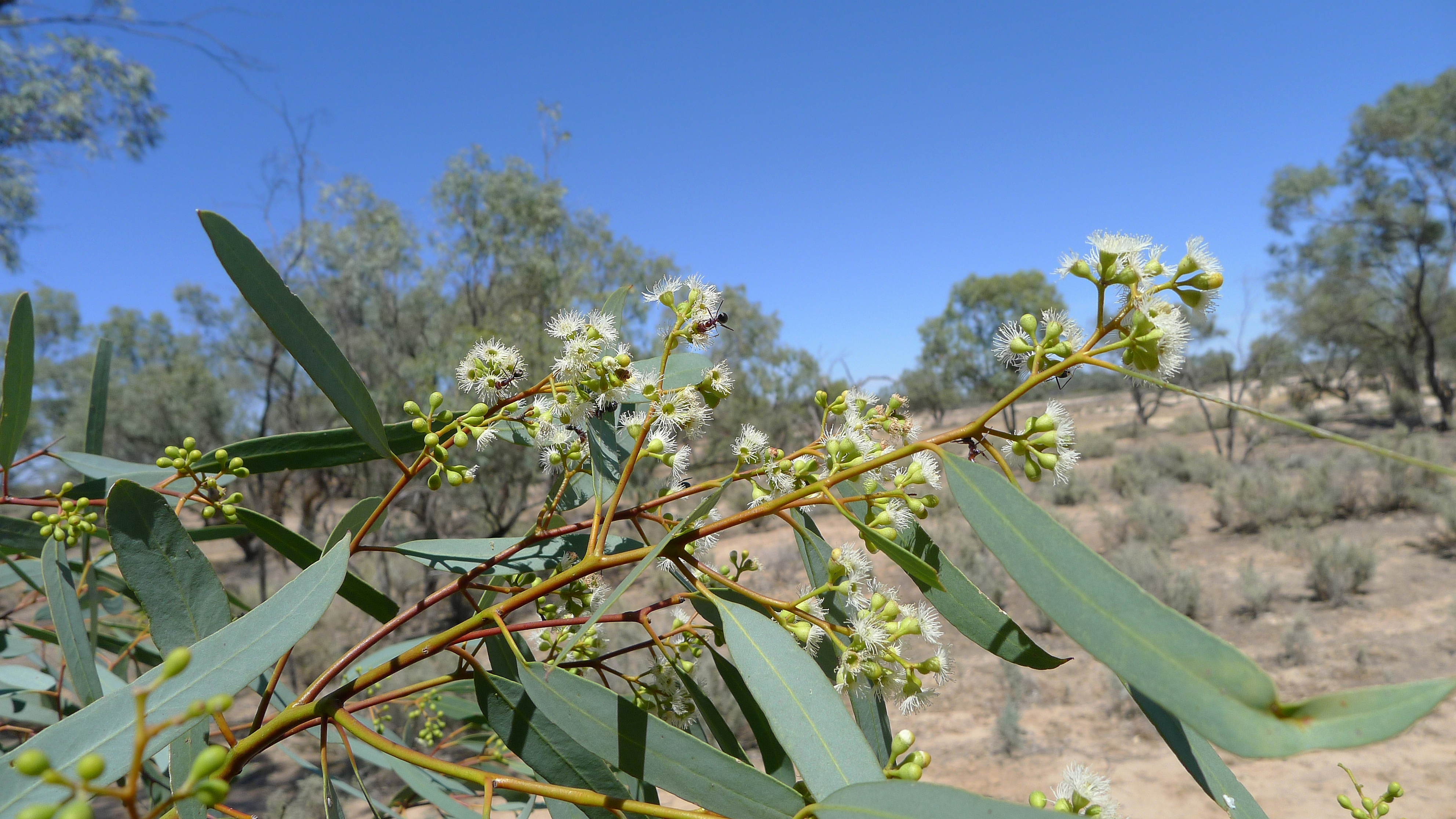 Black Box, Eucalyptus largiflorens. Kinchega National Park, NSW, Australia, November 2014.